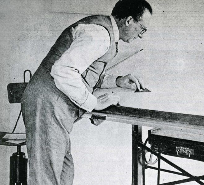 Ir. W.G. Witteveen, juni 1940